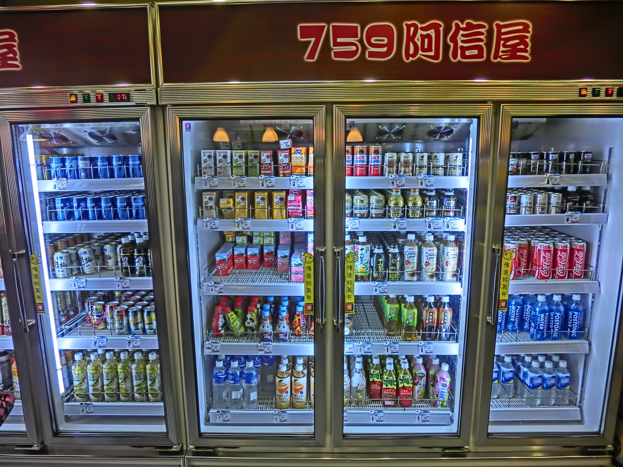 759阿信屋, 759 Store new opening in Queen's Road West, near Eastern Street, Sai Ying Pun, Hong Kong